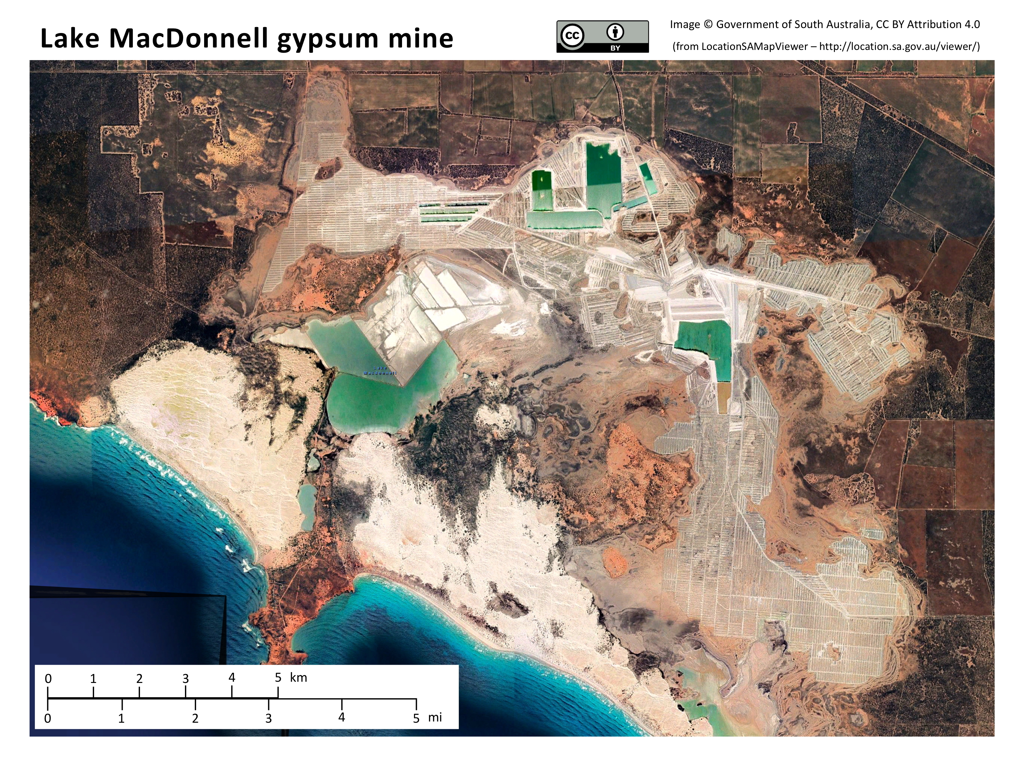 Aerial view of the gypsum mine at Lake MacDonnell (Kevin), Eyre Peninsula, South Australia, in 2019